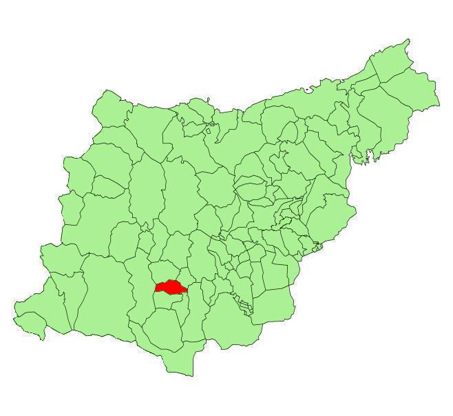 Mutiloa municipality in the province of Guipuzcoa